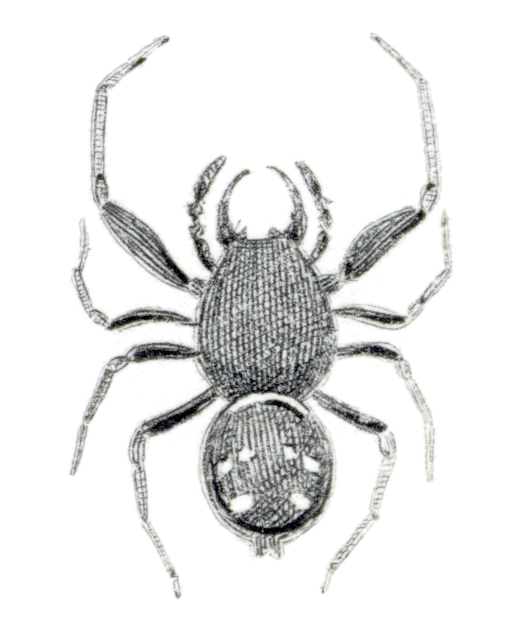 Hentz's original drawing of Attus sexpunctatus (now Zygoballus sexpunctatus)